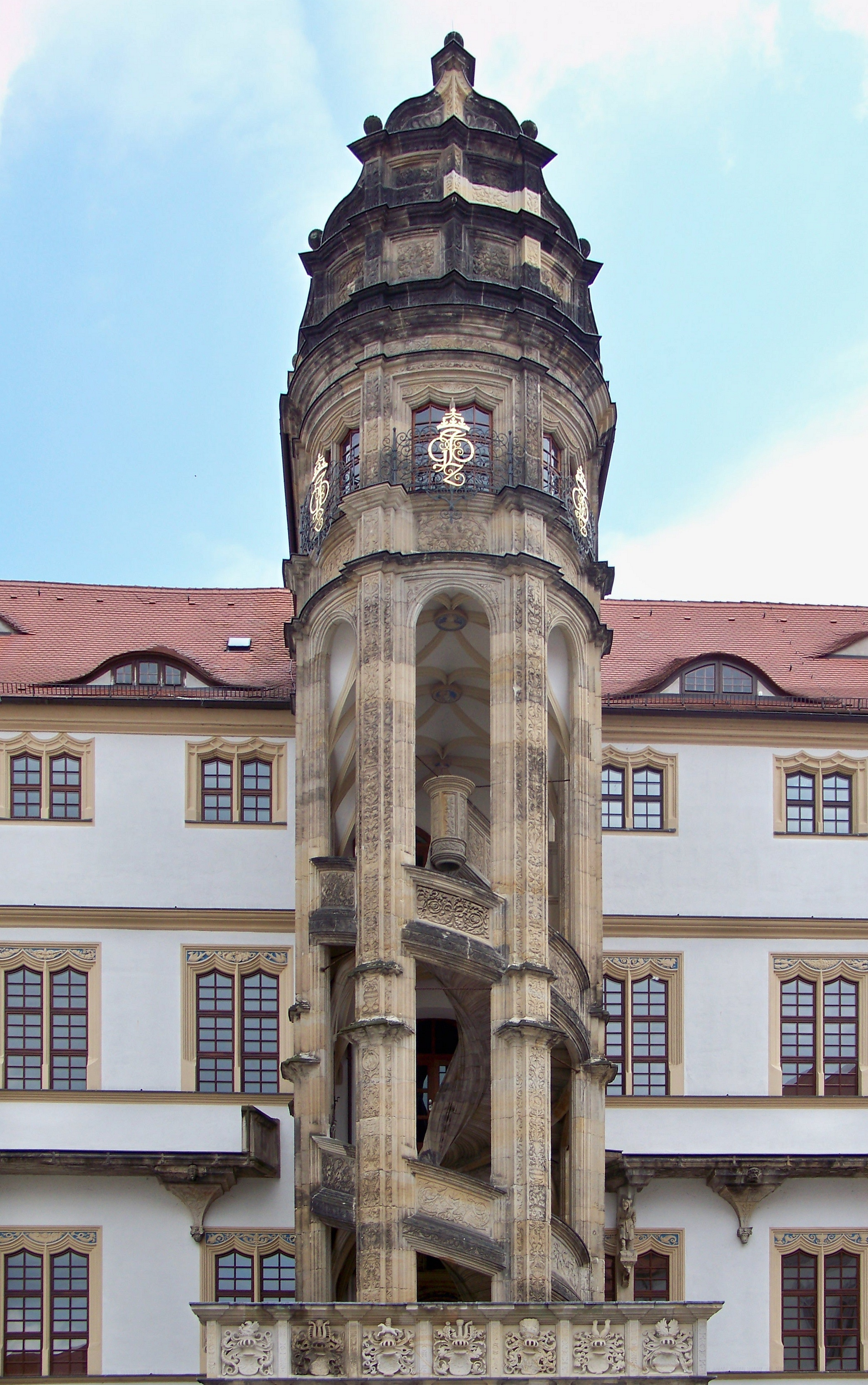 Wendelstein in the inner courtyard of Castle Hartenfels in Torgau/Saxony